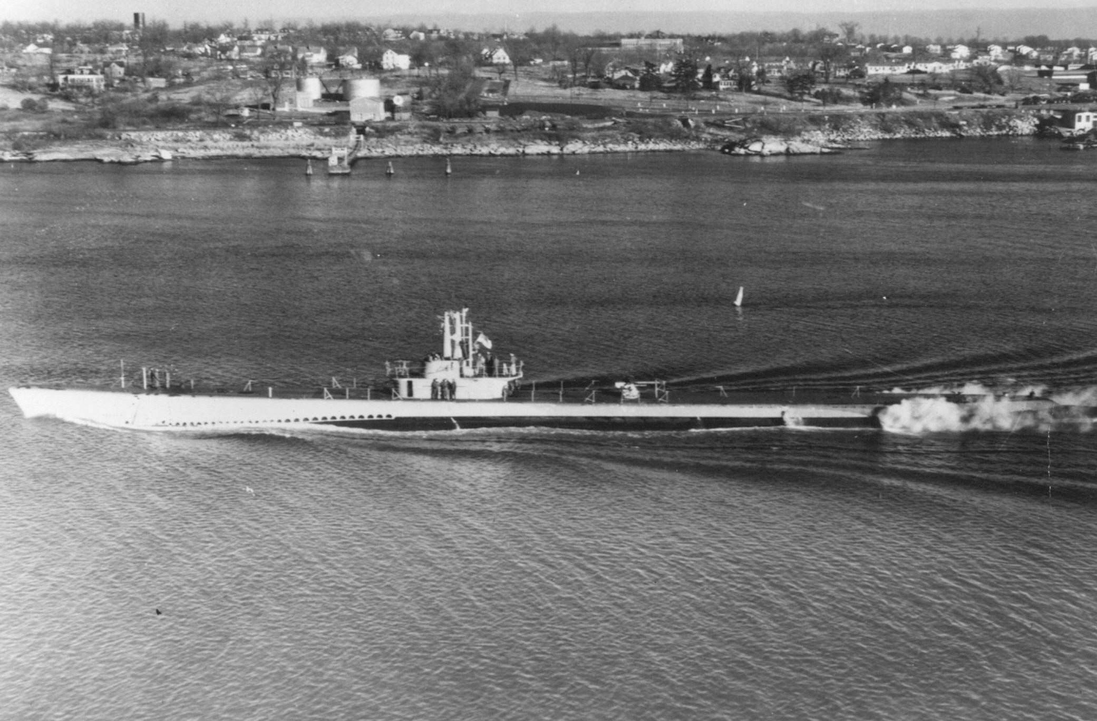 USS Brill (SS-330) possibly off the New England coast before her decommissoning.